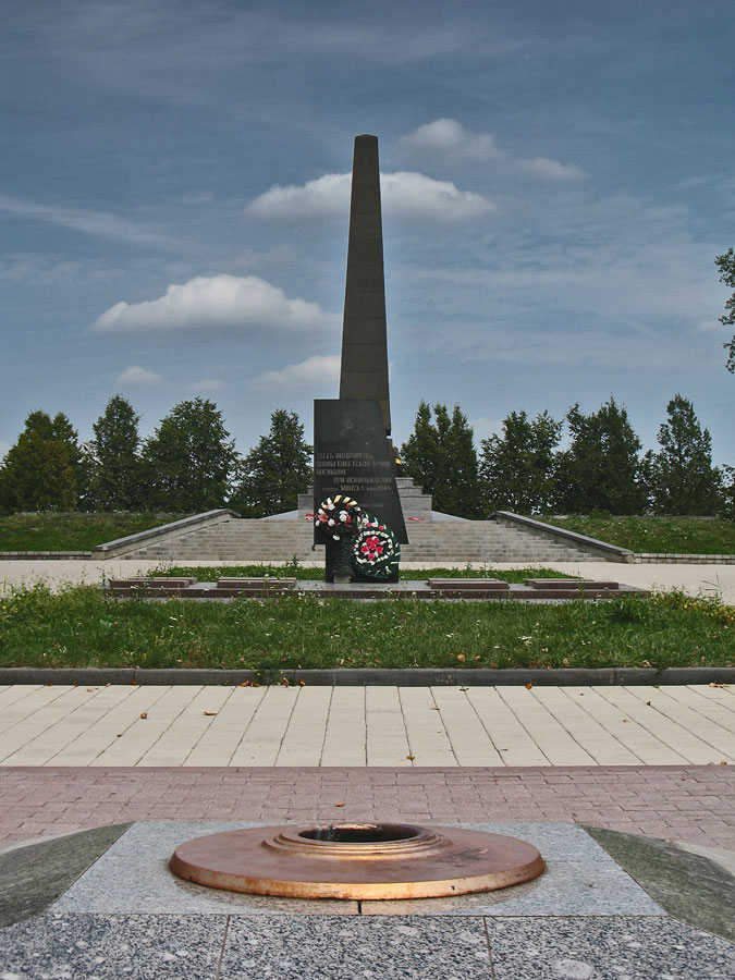 Memorial to WW2 victims in Vialiki Traścianiec